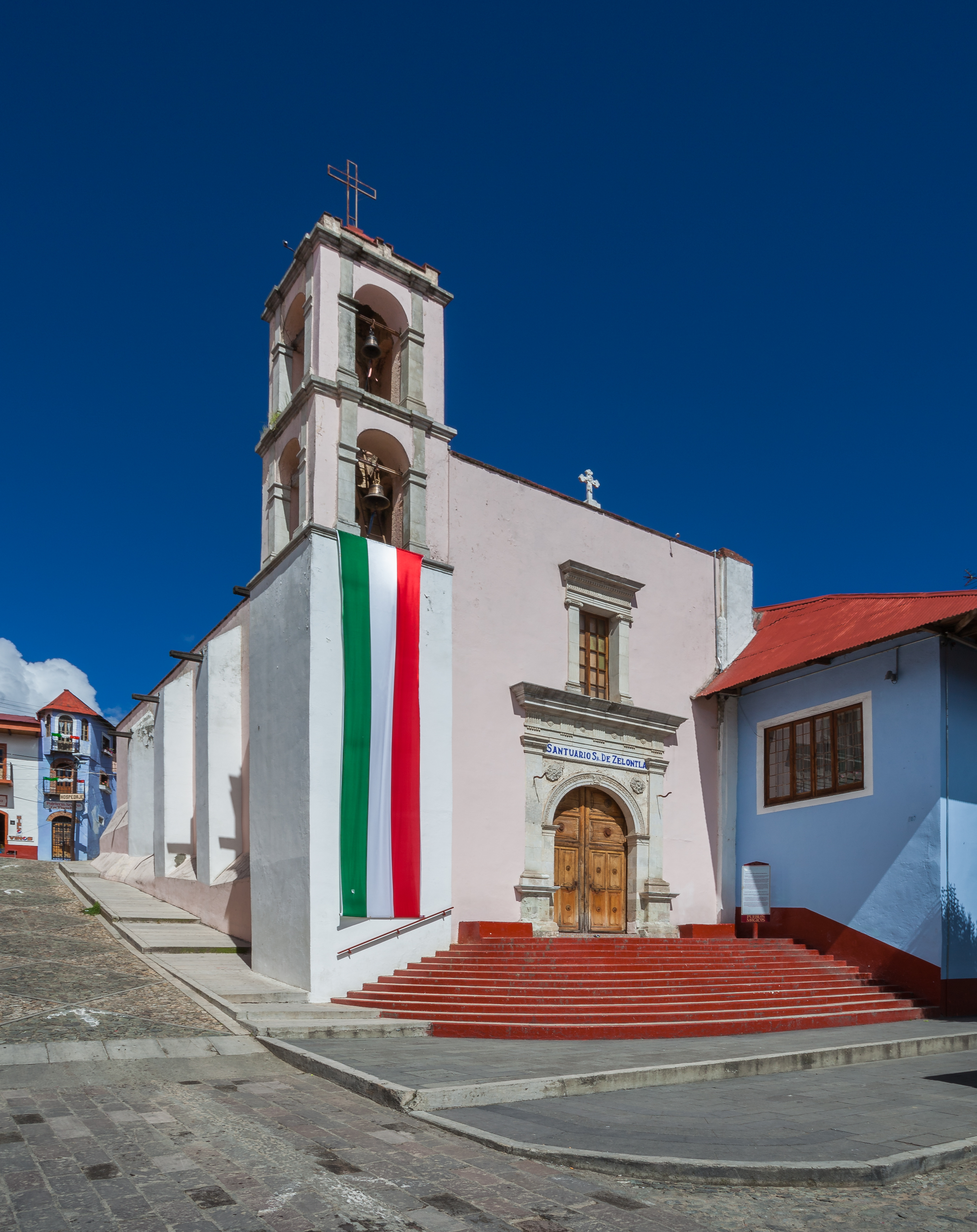 Chapel of the Lord of Celontla, Real del Monte, Hidalgo, Mexico